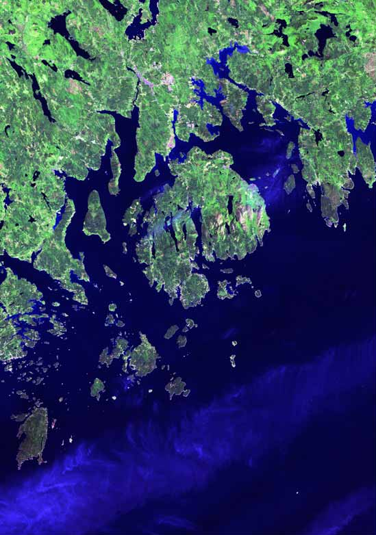 Satellite image of Acadia National Park